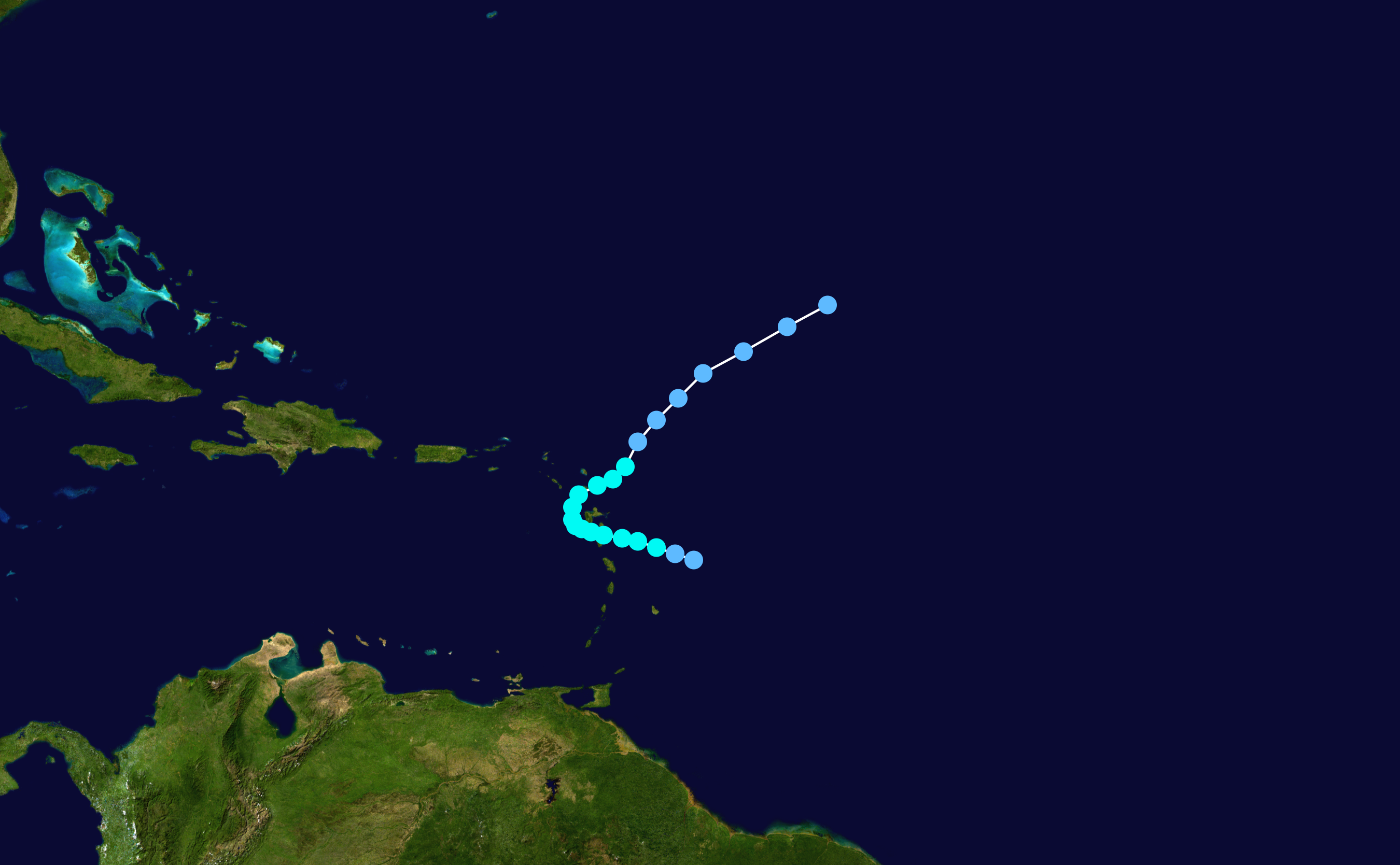 Track map of Tropical Storm Helena of the 1963 Atlantic hurricane season. The points show the location of the storm at 6-hour intervals. The colour represents the storm's maximum sustained wind speeds as classified in the Saffir–Simpson scale (see below), and the shape of the data points represent the nature of the storm, according to the legend below. Saffir–Simpson scale Tropical depression≤38 mph≤62 km/h Category 3111–129 mph178–208 km/h Tropical storm39–73 mph63–118 km/h Category 4130–156 mph209–251 km/h Category 174–95 mph119–153 km/h Category 5≥157 mph≥252 km/h Category 296–110 mph154–177 km/h Unknown Storm type Tropical cyclone Subtropical cyclone Extratropical cyclone / Remnant low / Tropical disturbance / Monsoon depression